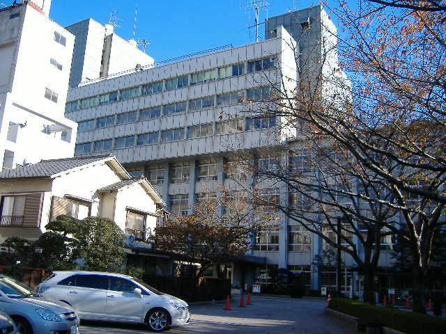 Kita City Office (Tokyo)